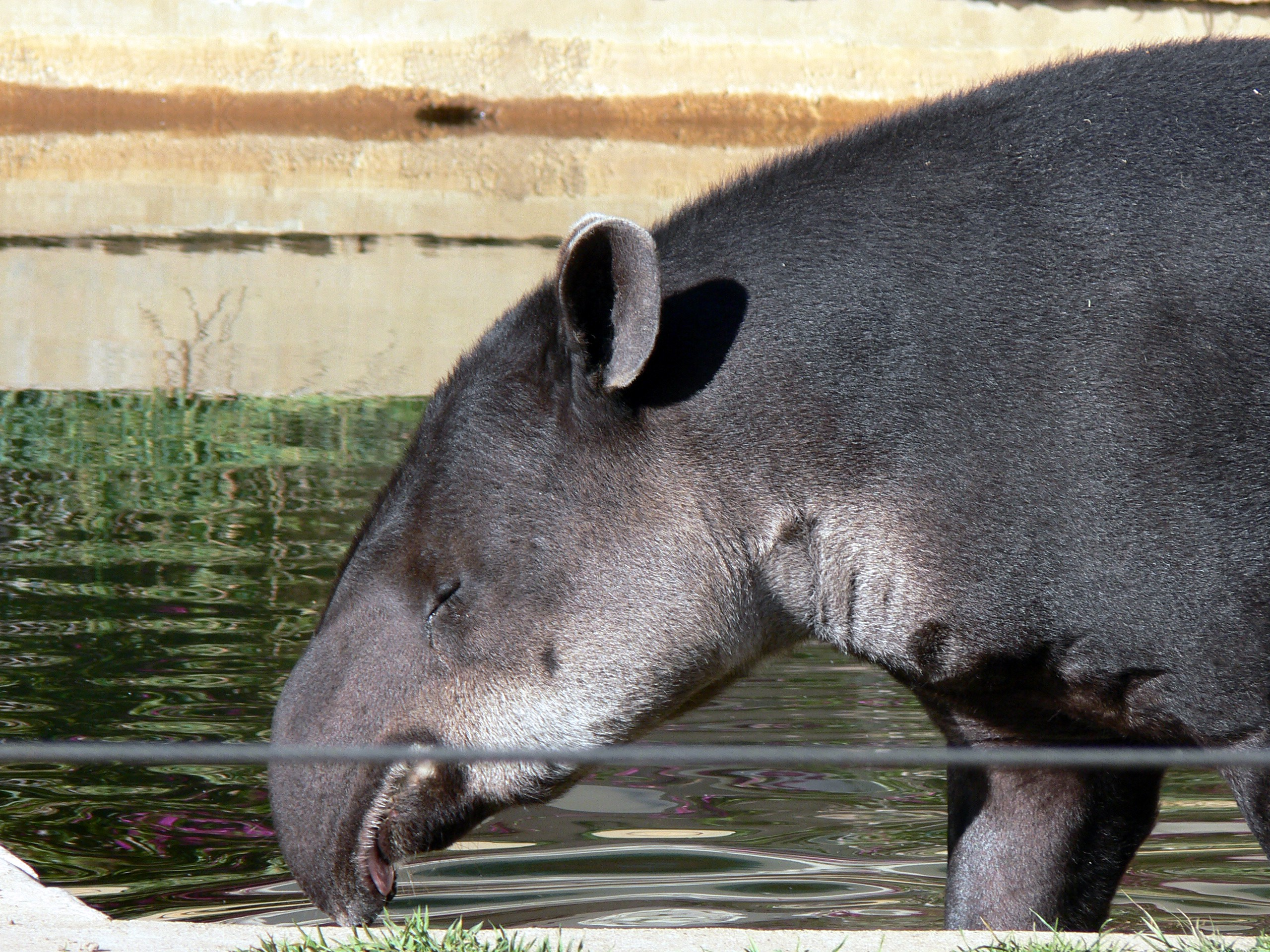 A Tapir in the San Francisco zoo.